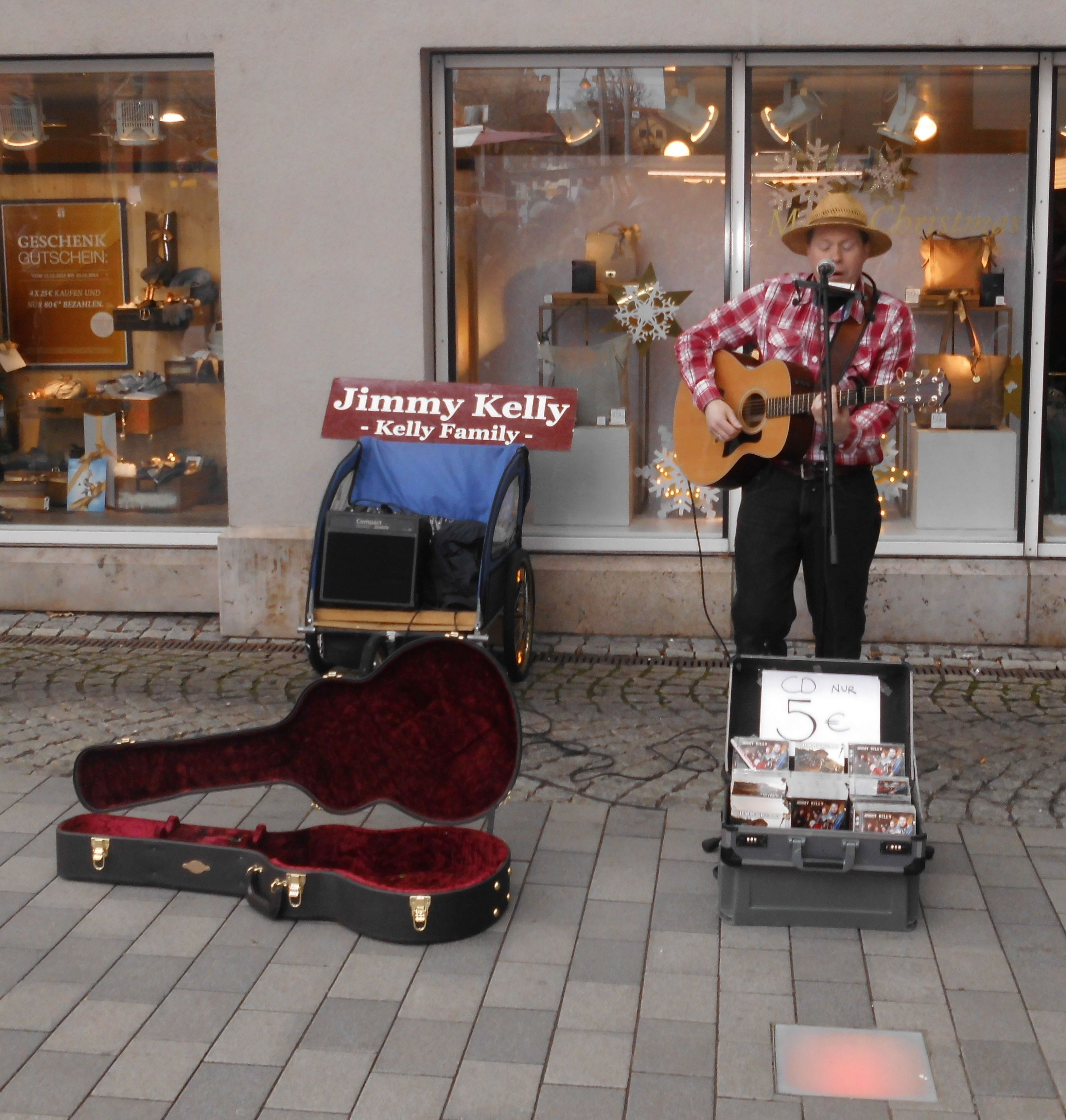 Jimmy Kelly performing in front of the Goethegalerie Jena, Christmas 2015